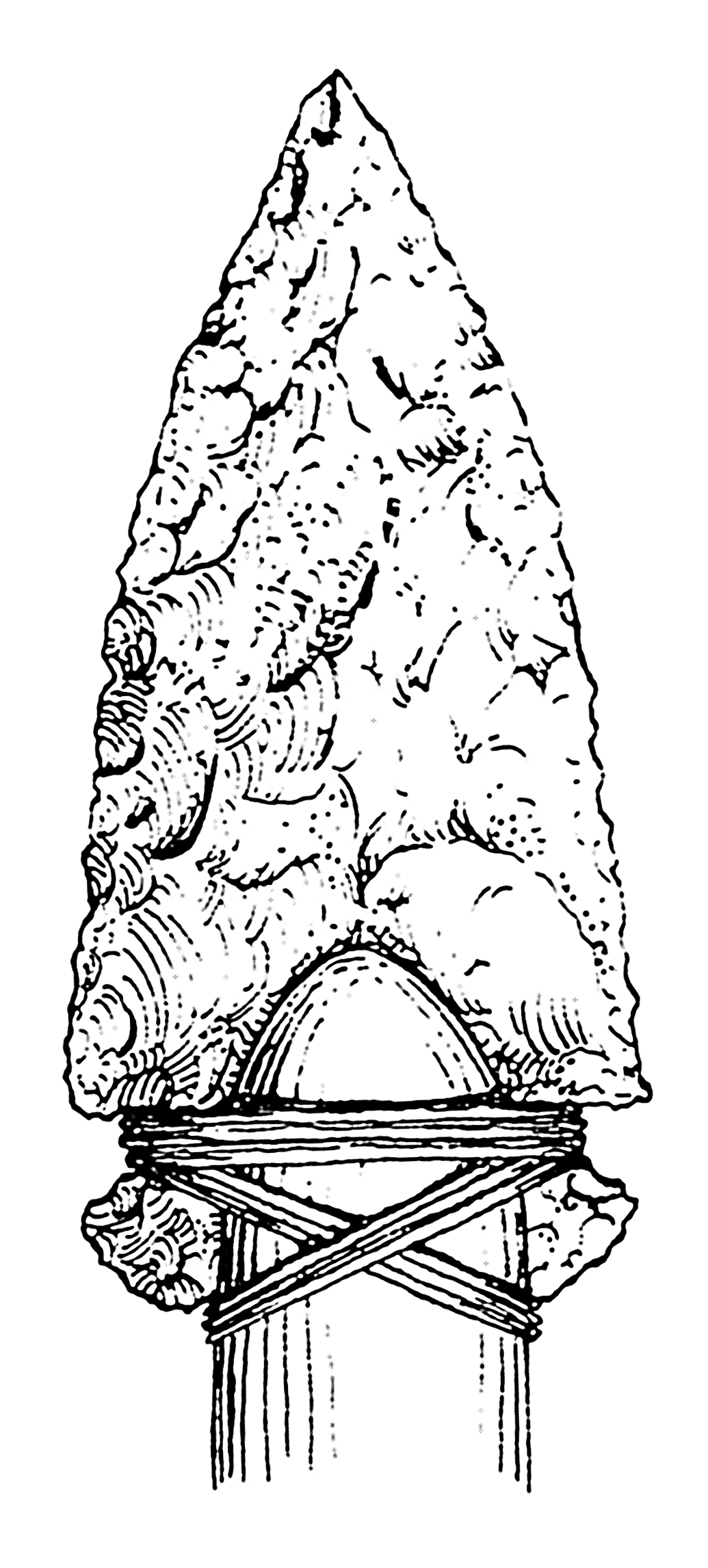 Line art drawing of an arrowhead.